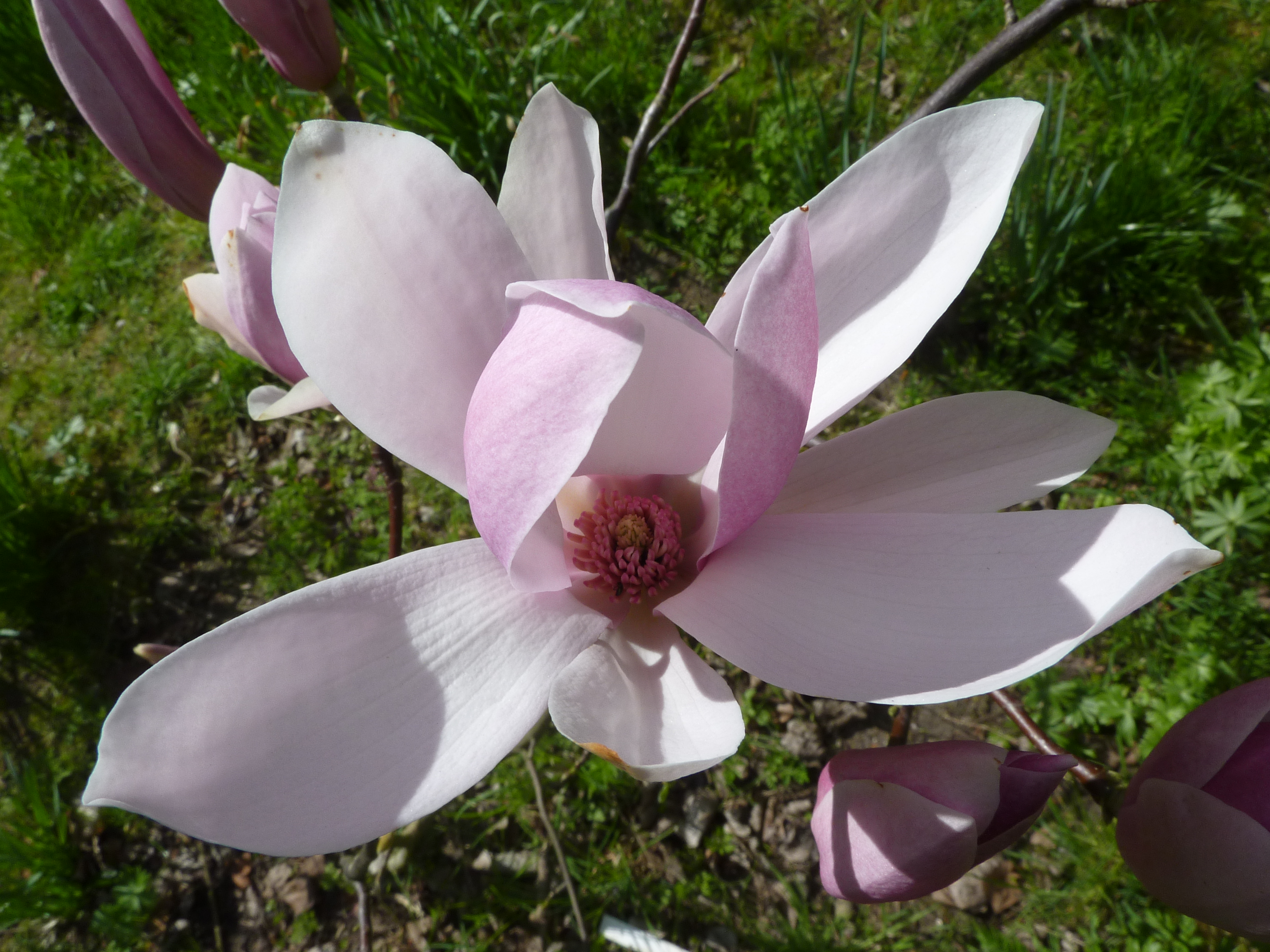 Taken in the Cambridge University Botanic Garden.